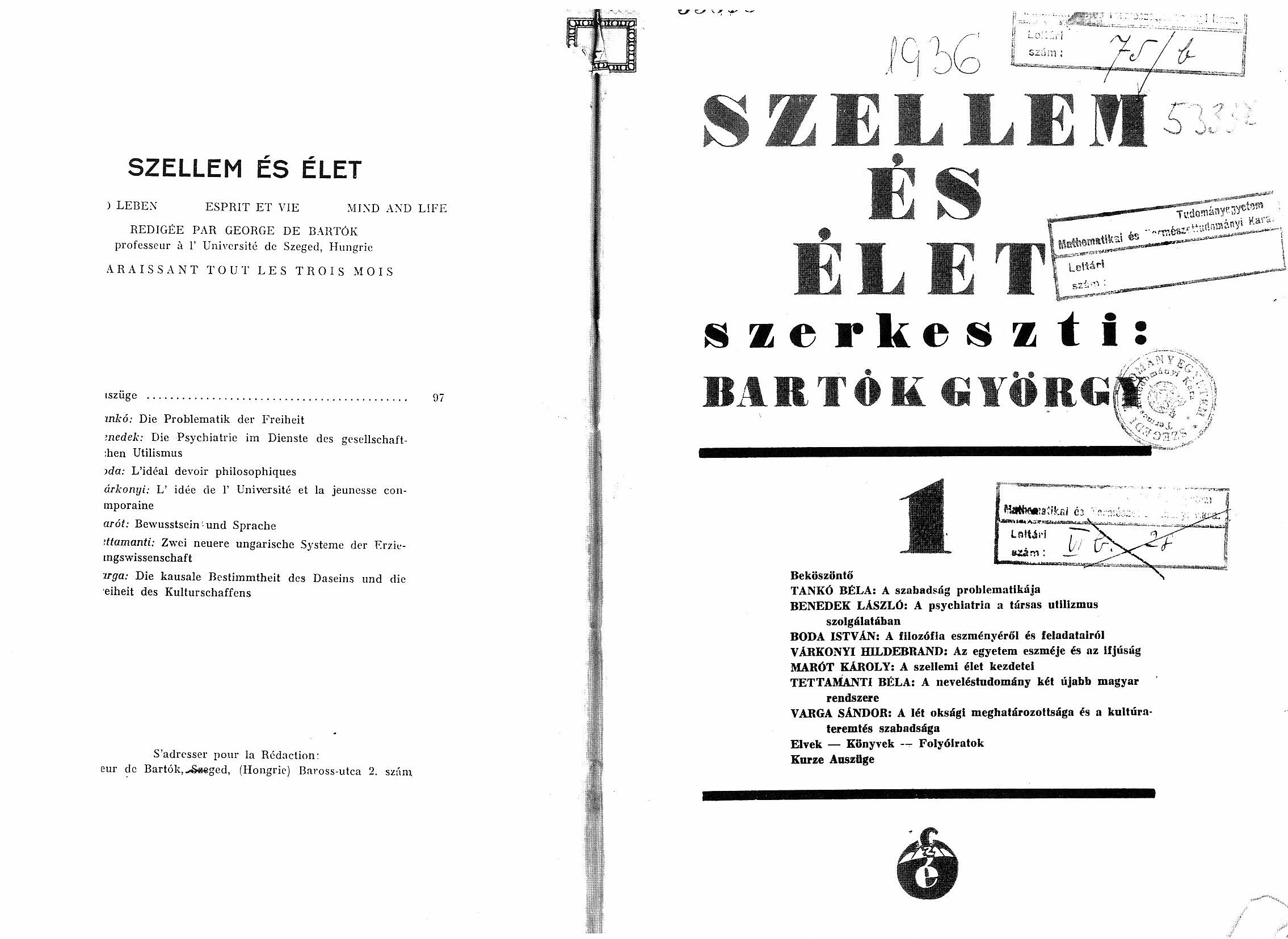 Book-cover of Szellem and Élet 1936 1. booklet